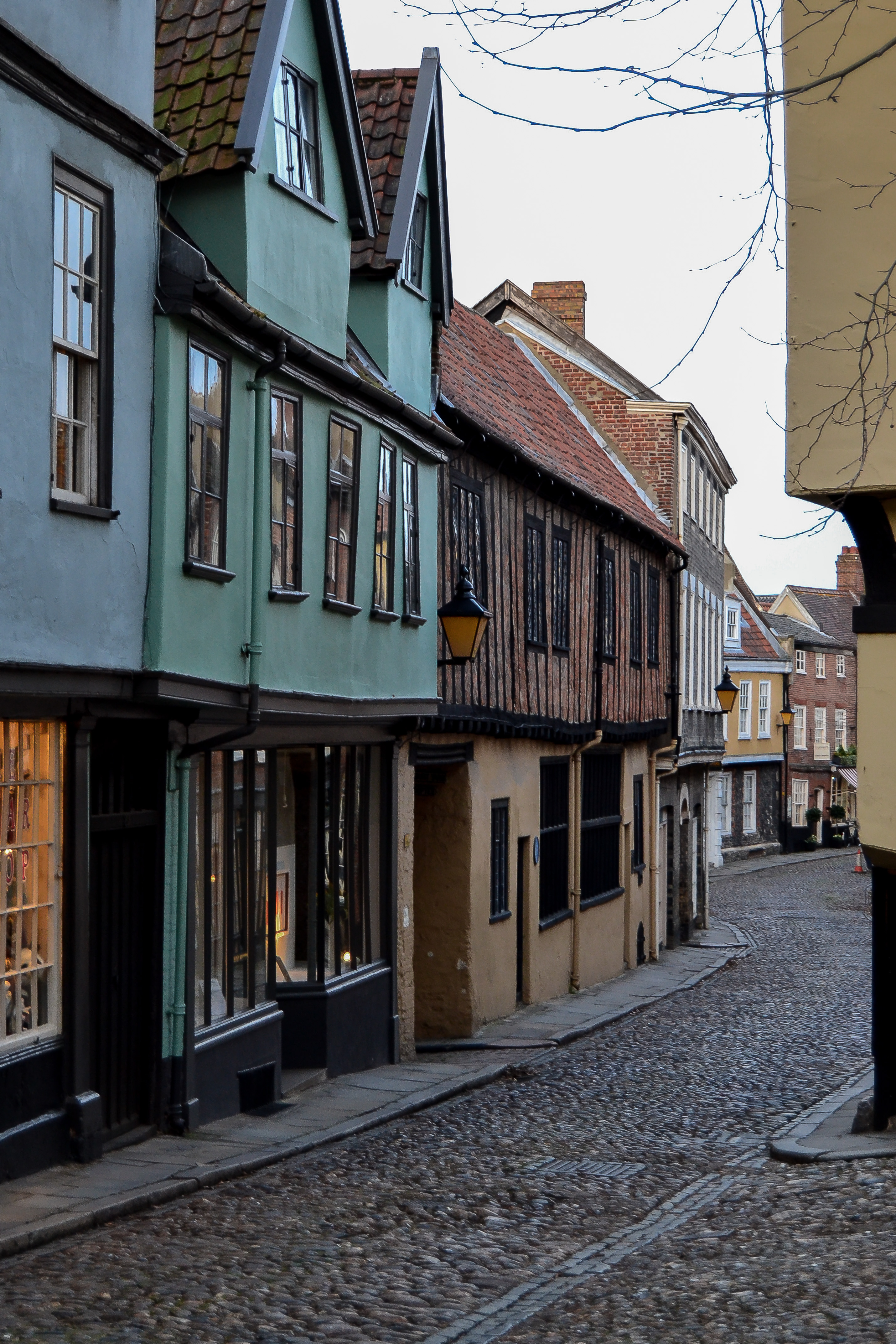 6 And 8, Elm Hill Wikidata has entry Q26303177 with data related to this item.